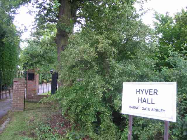 Gates to Hyver Hall Arkley. The intercom system put me off so I thought the sign was sufficient